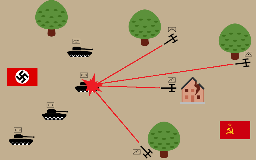 A diagram showing basic "Pakfront" anti-tank tactics used by both Germany and the USSR during WW2